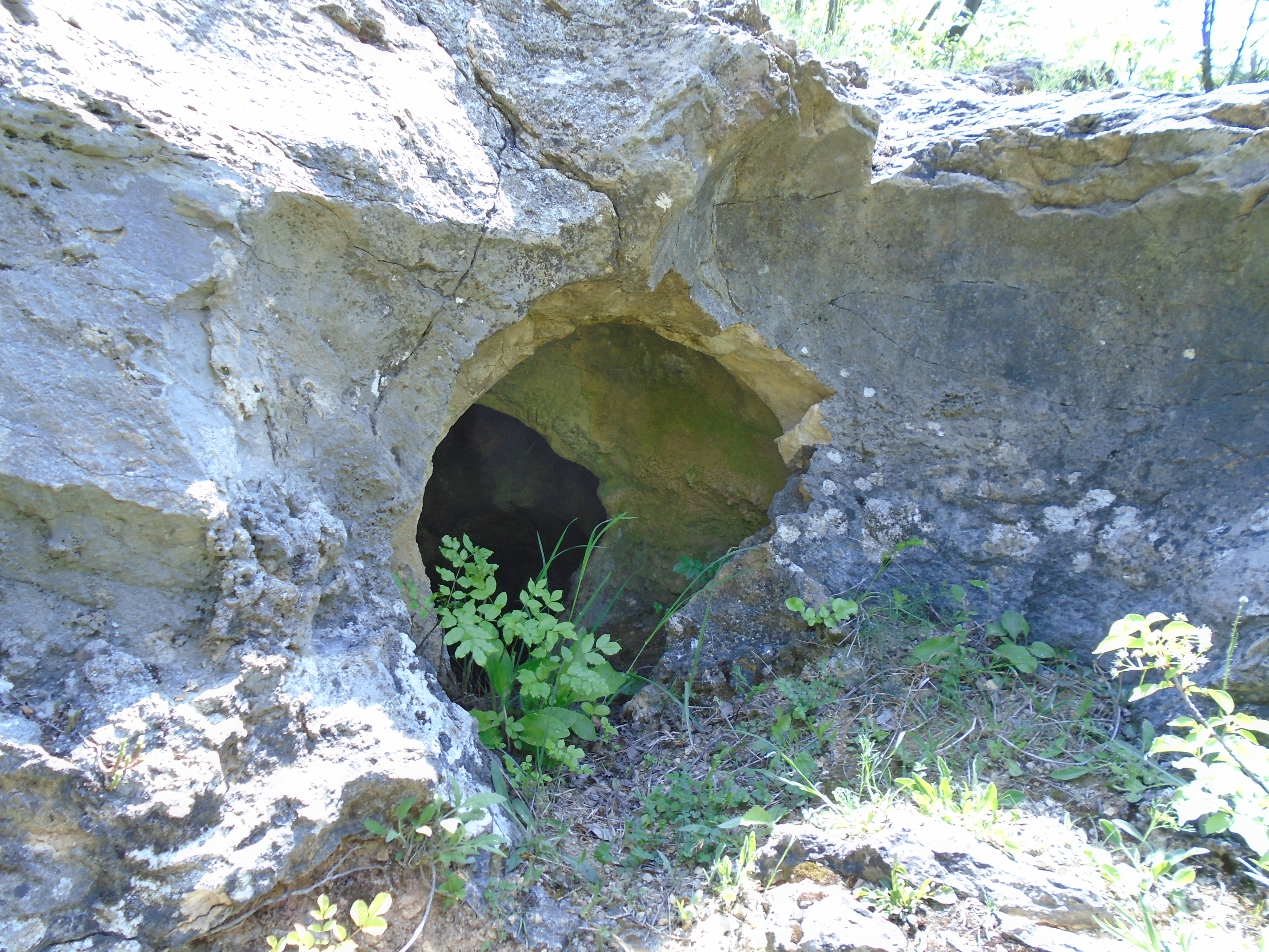 Entrance of Keleti quarry No 10 Cave.